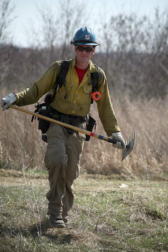 a firefighter in Wayne National Forest